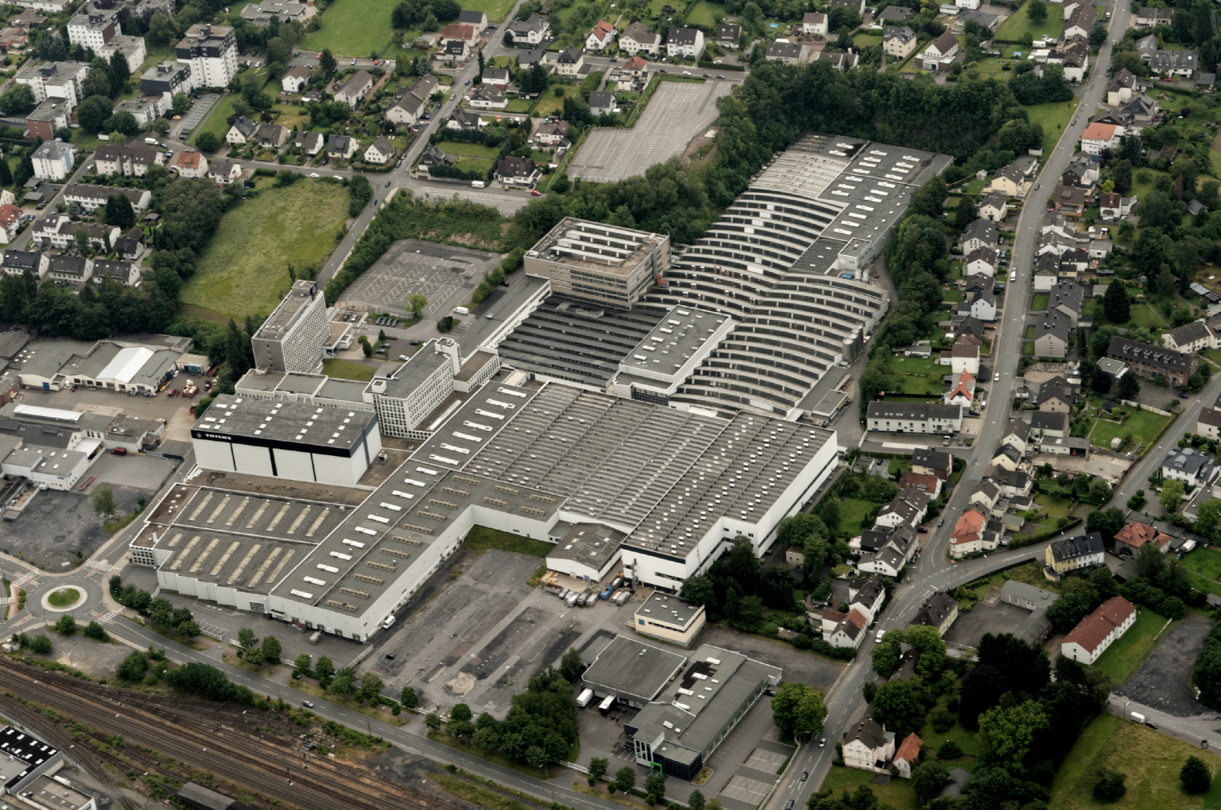 Arnsberg-Hüsten: Triluxwerk (Fotoflug Sauerland Nord) The making of this document was supported by the Community-Budget of Wikimedia Germany.